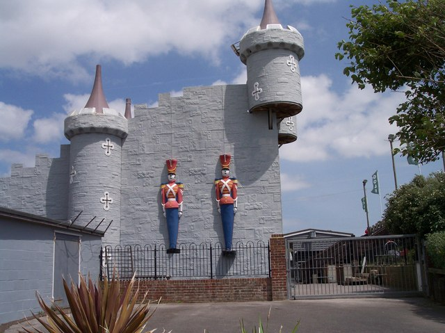 Guarding the Fun Fair, Littlehampton. Viewed from the walkway along the side of the River Arun.